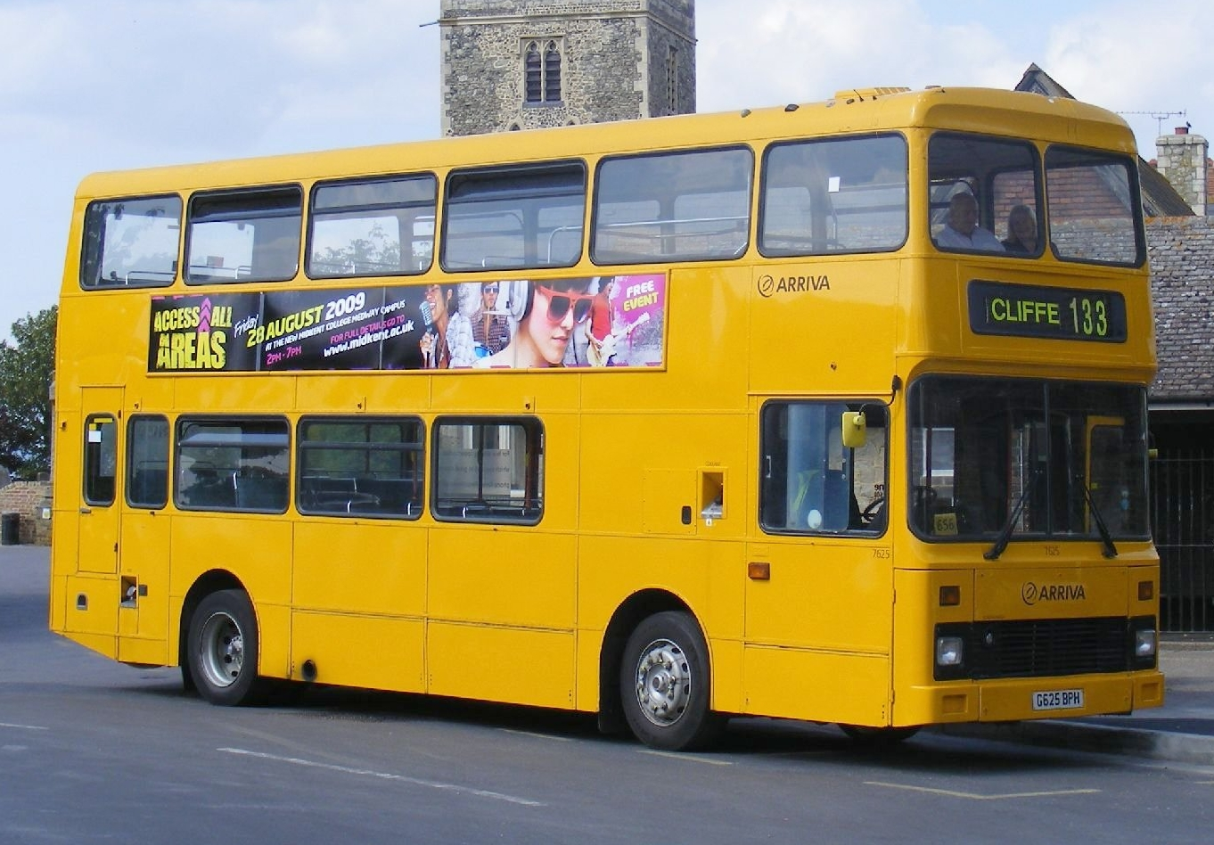 The tranquil north-western terminus of Arriva Route 133 from Chatham is the Six Bells at Cliffe. Arriva 7625 is a Volvo Citybus with Northern Counties bodywork, in yellow schools livery. Previously it was 625 with London & Country, new in 1989, an unheard of age for London buses.